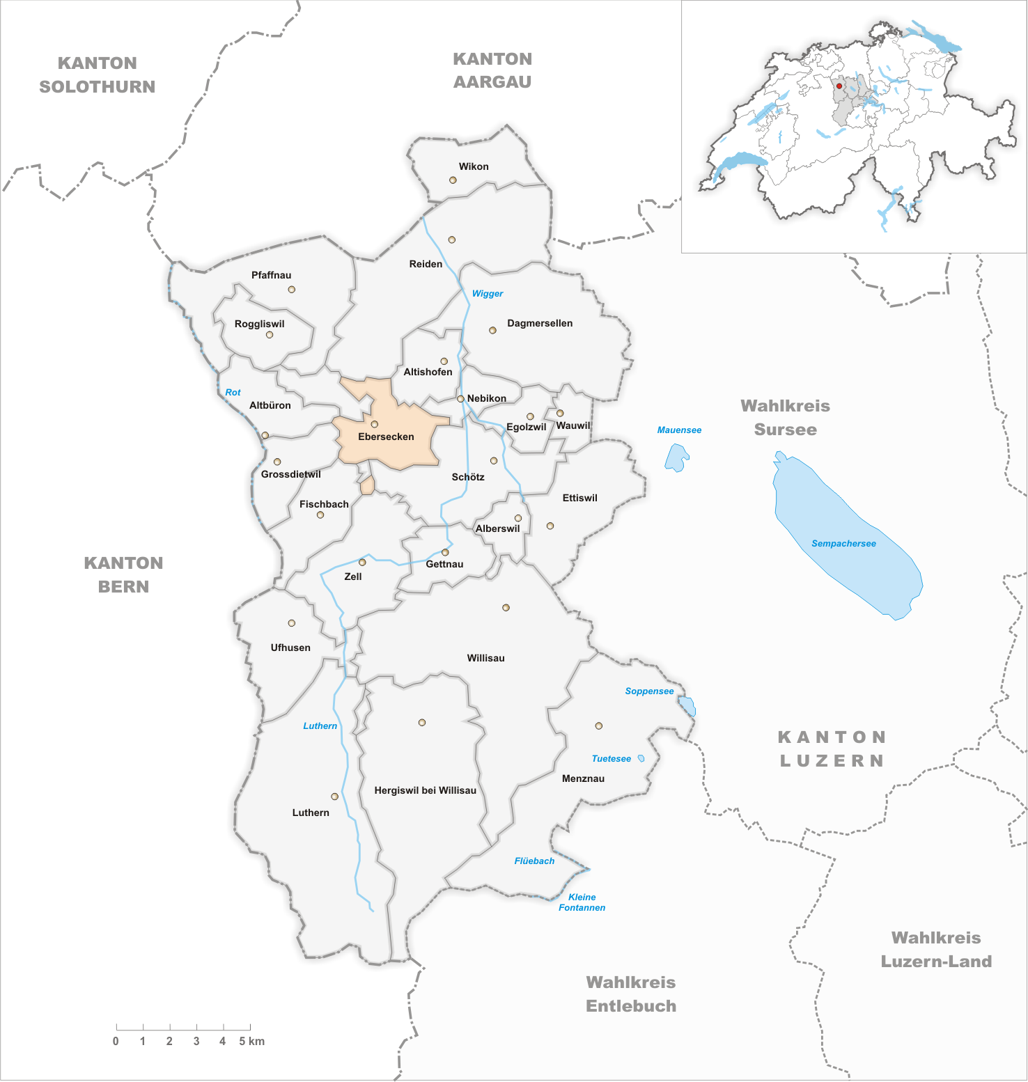 Municipality Ebersecken